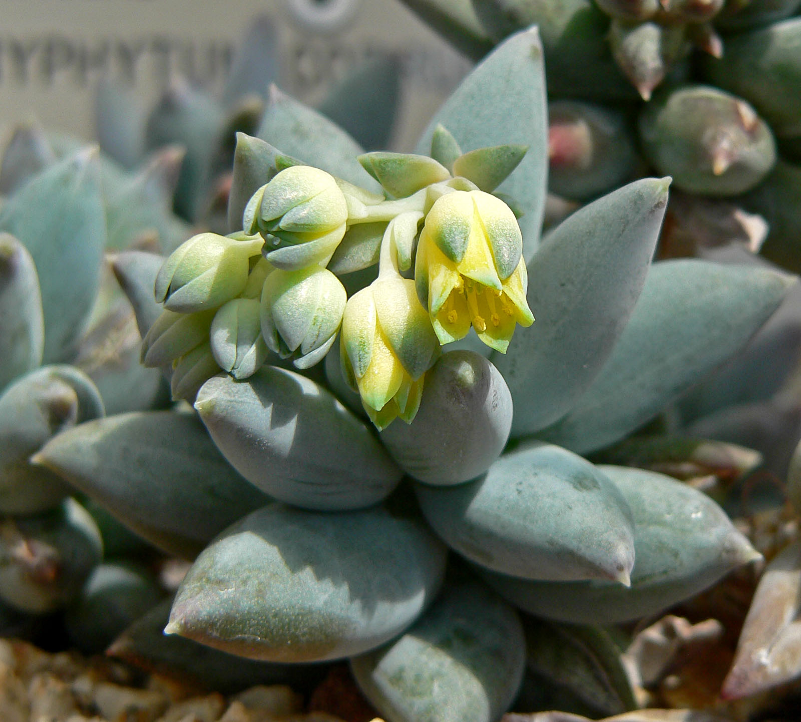 Pachyphytum coeruleum at the University of California Botanical Garden, Berkeley, California